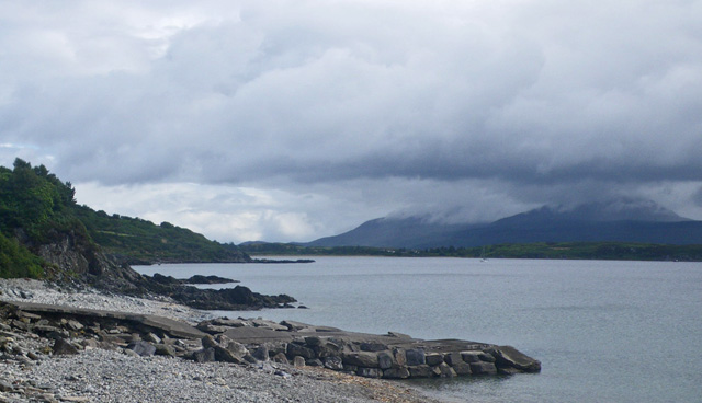 Ragged shoreline leading to Dippen Bay, near to Bridgend, Argyll And Bute, Great Britain. The shingle beach is punctuated with protrusion of larger elements of hard rock jutting into the sea.